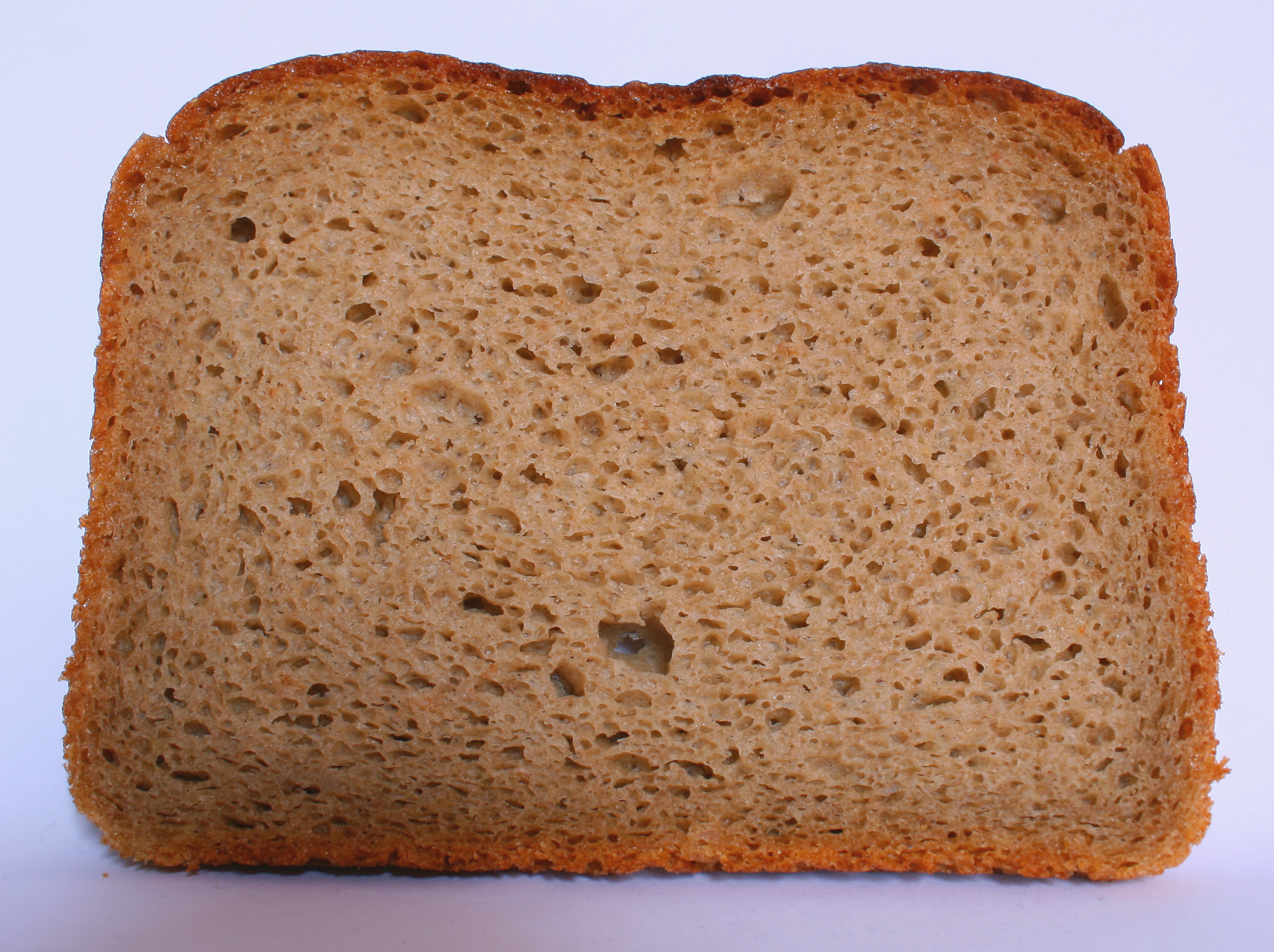 A slice of Paderborner Landbrot (Country bread of Paderborn), a popular type of rye bread in Germany.